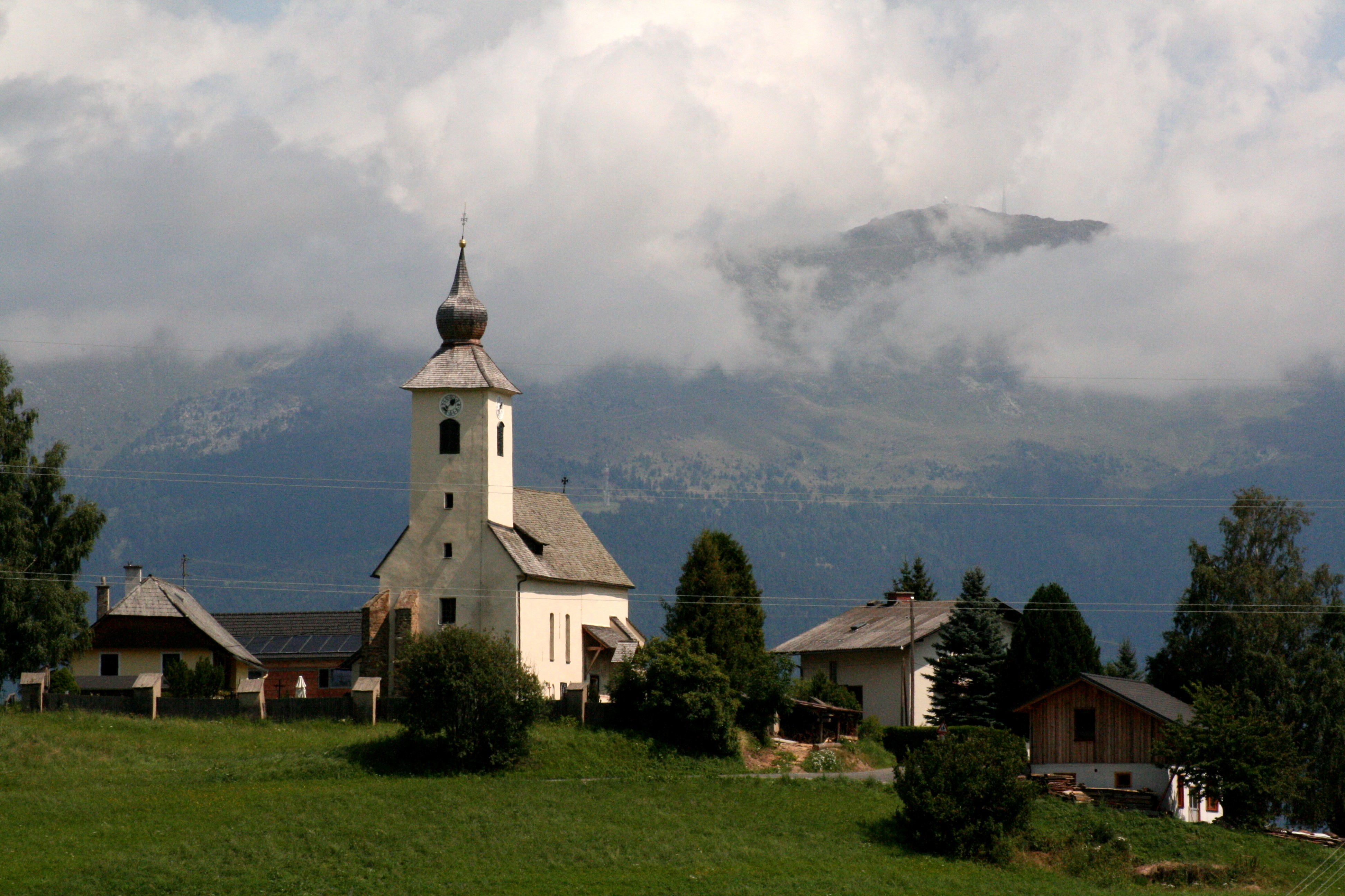 Church in Pöllau, Sankt Marein bei Neumarkt, Styria, Austria, Europe